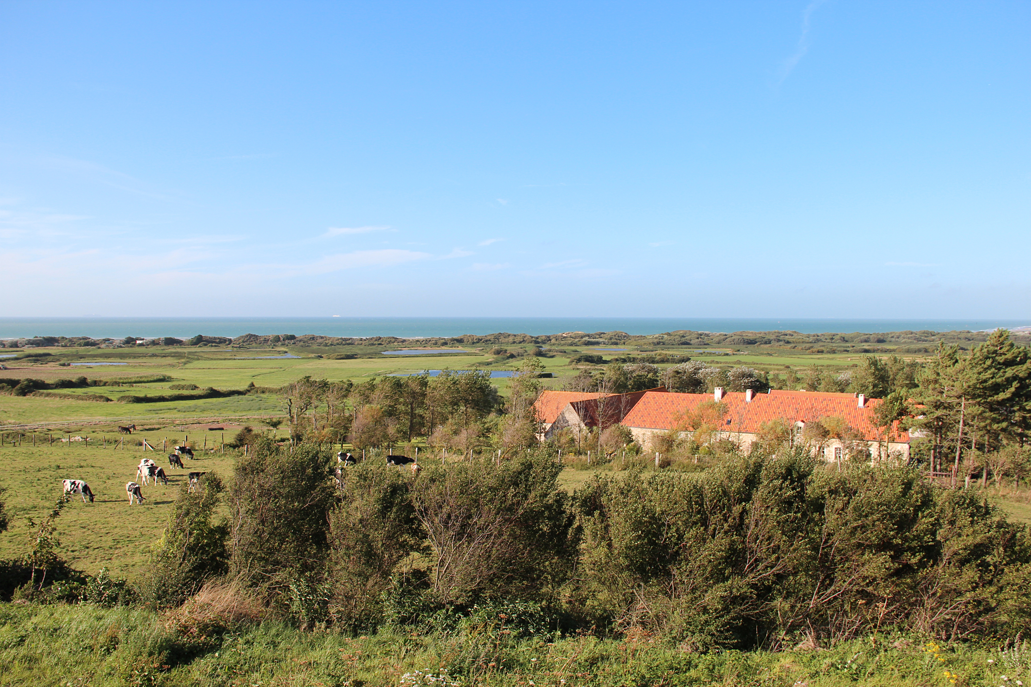 Tardinghen (Pas-de-Calais), France. – « Sites des Deux Caps » (Two Capes site) with the « baie de Wissant », the marshes and the « Ferme de la Source ».